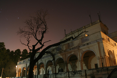 Rajindra Kothi is now being converted to a heritage hotel.